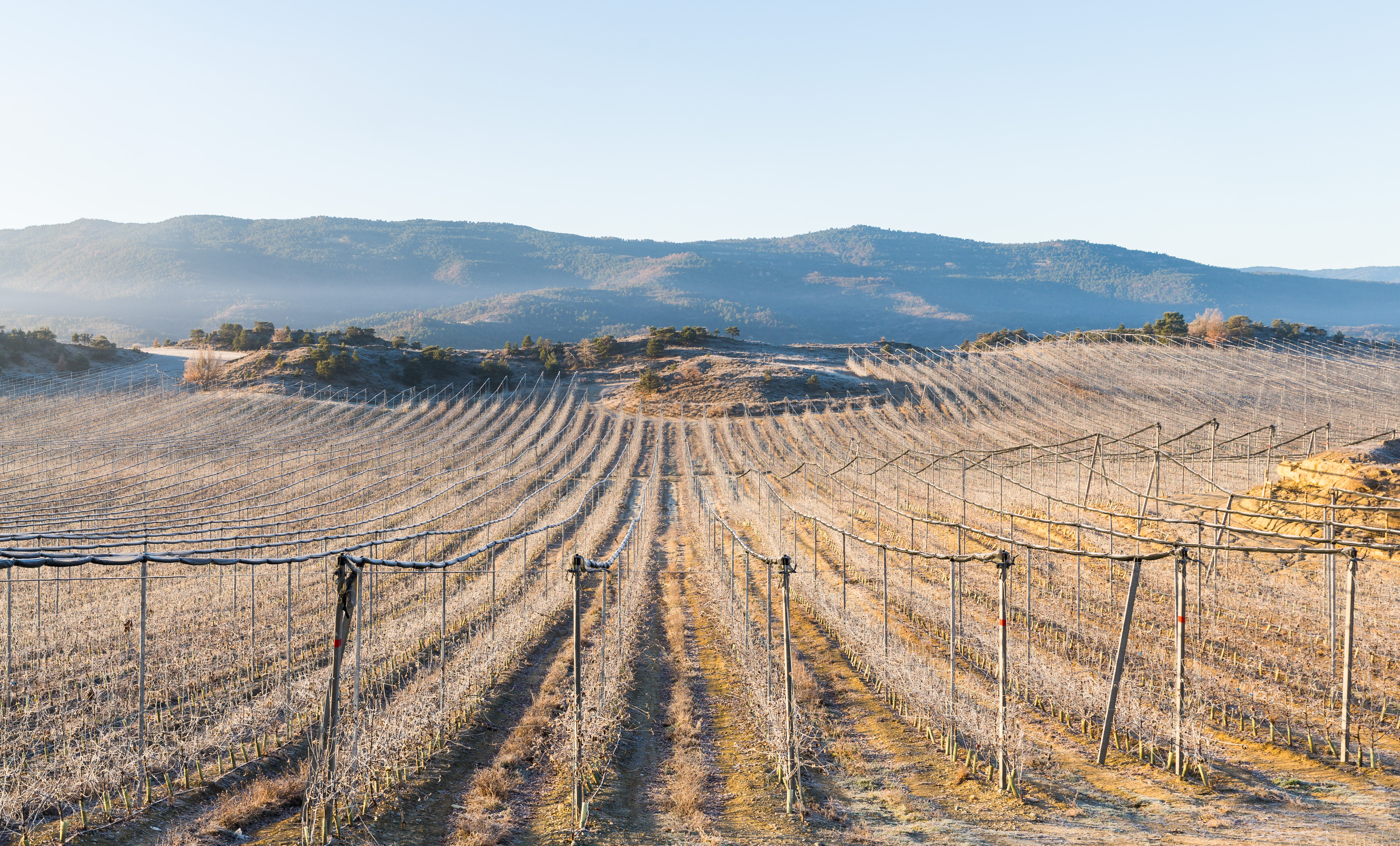 Landscape of frozen vineyards near Castillo de Lerés, province of Huesca, Spain.